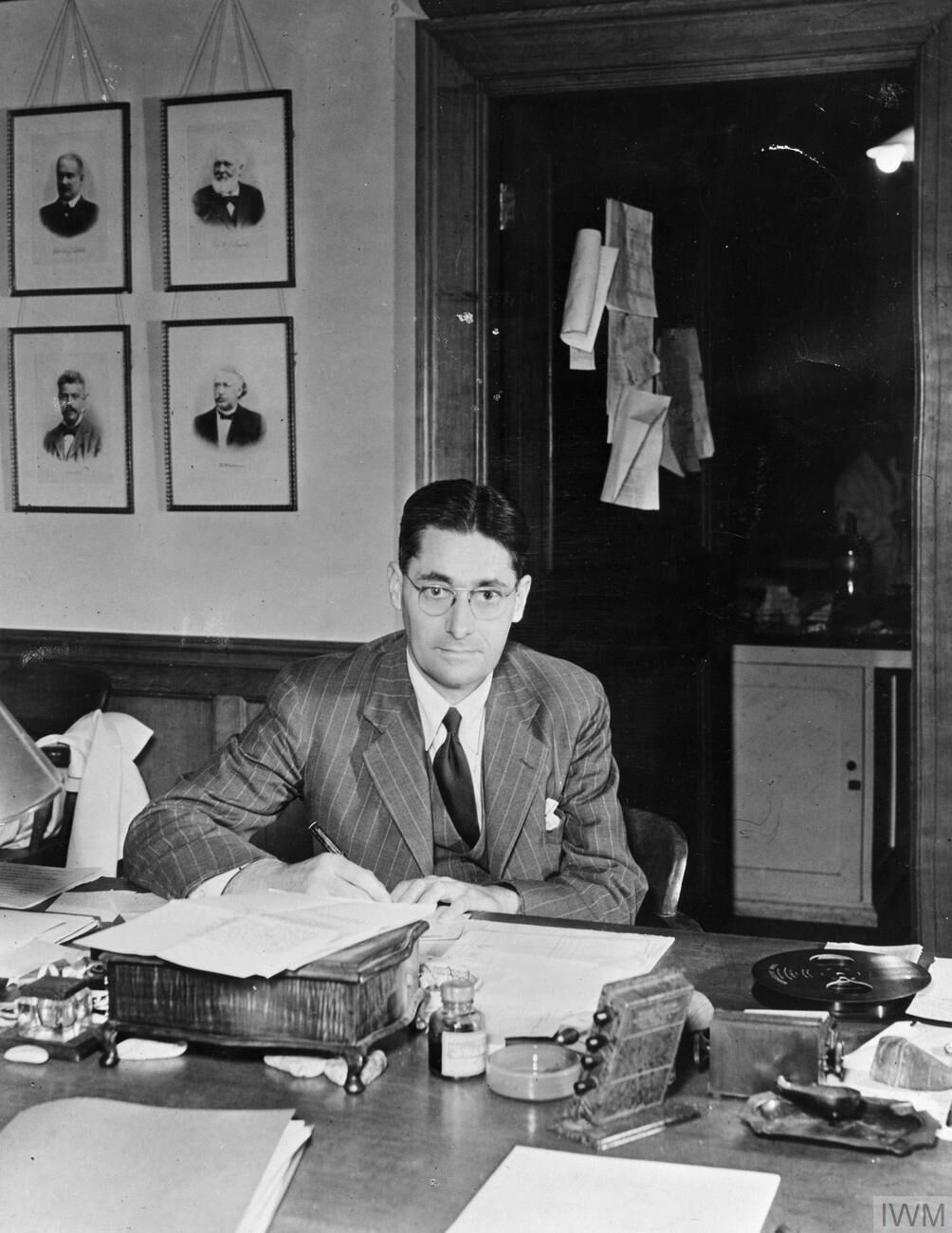 Penicillin Past, Present and Future- the Development and Production of Penicillin, England, 1944 Professor Howard Florey makes notes as he sits at his desk at the Sir William Dunn School of Pathology in Oxford. Professor Florey is Australian and began his research into penicillin in 1938. It was in laboratories under his control that penicillin was first shown to cure diseases.